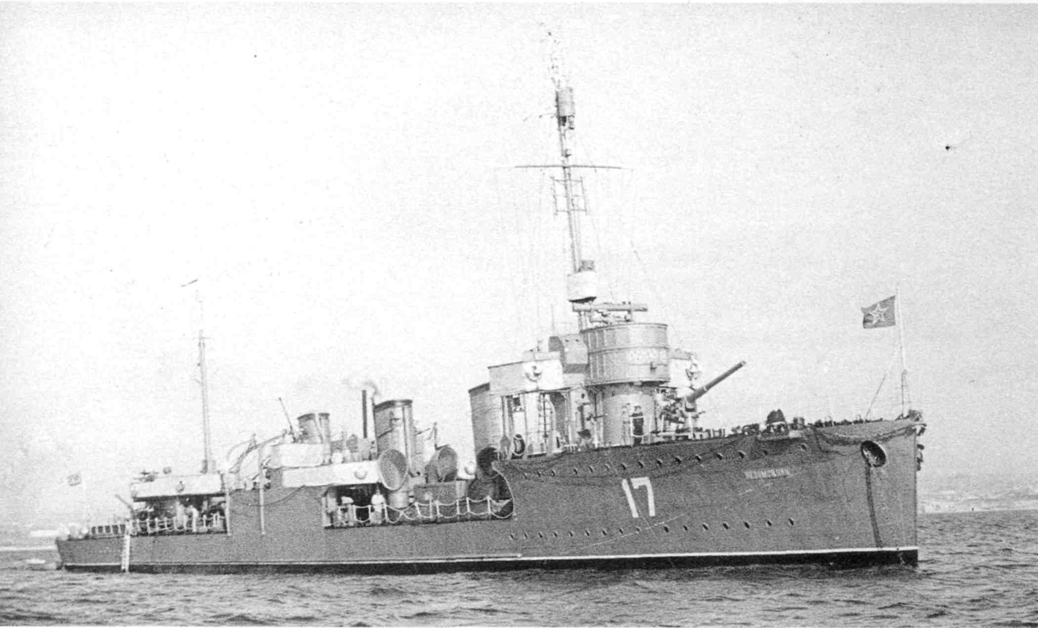 Soviet destroyer Nezamozhnik.